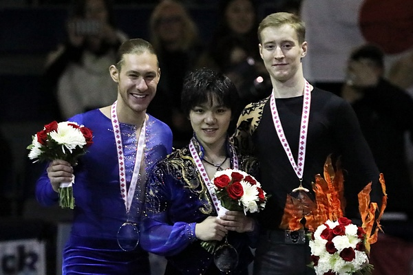 The men's podium at the 2017 Skate Canada International. From left: Jason Brown (2nd), Shoma Uno (1st), Alexander Samarin (3rd).